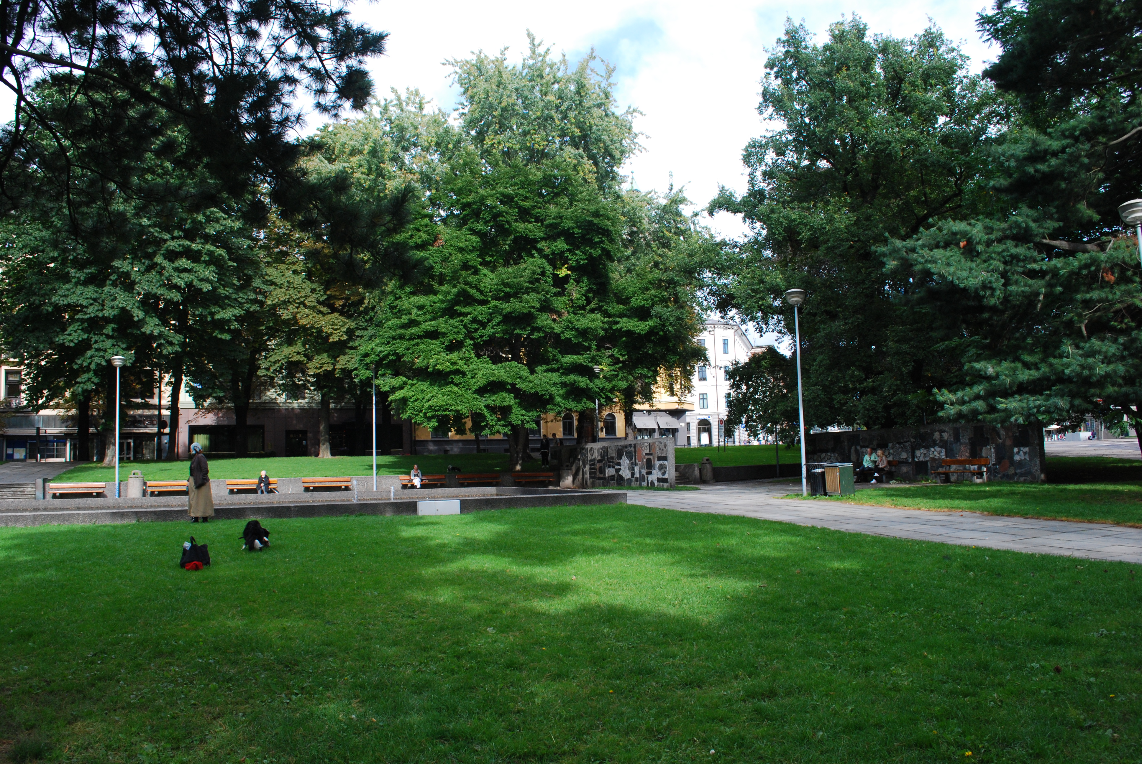 Hydroparken, by the streets Drammensveien and Bygdøy allé, Frogner neighborhood, Oslo